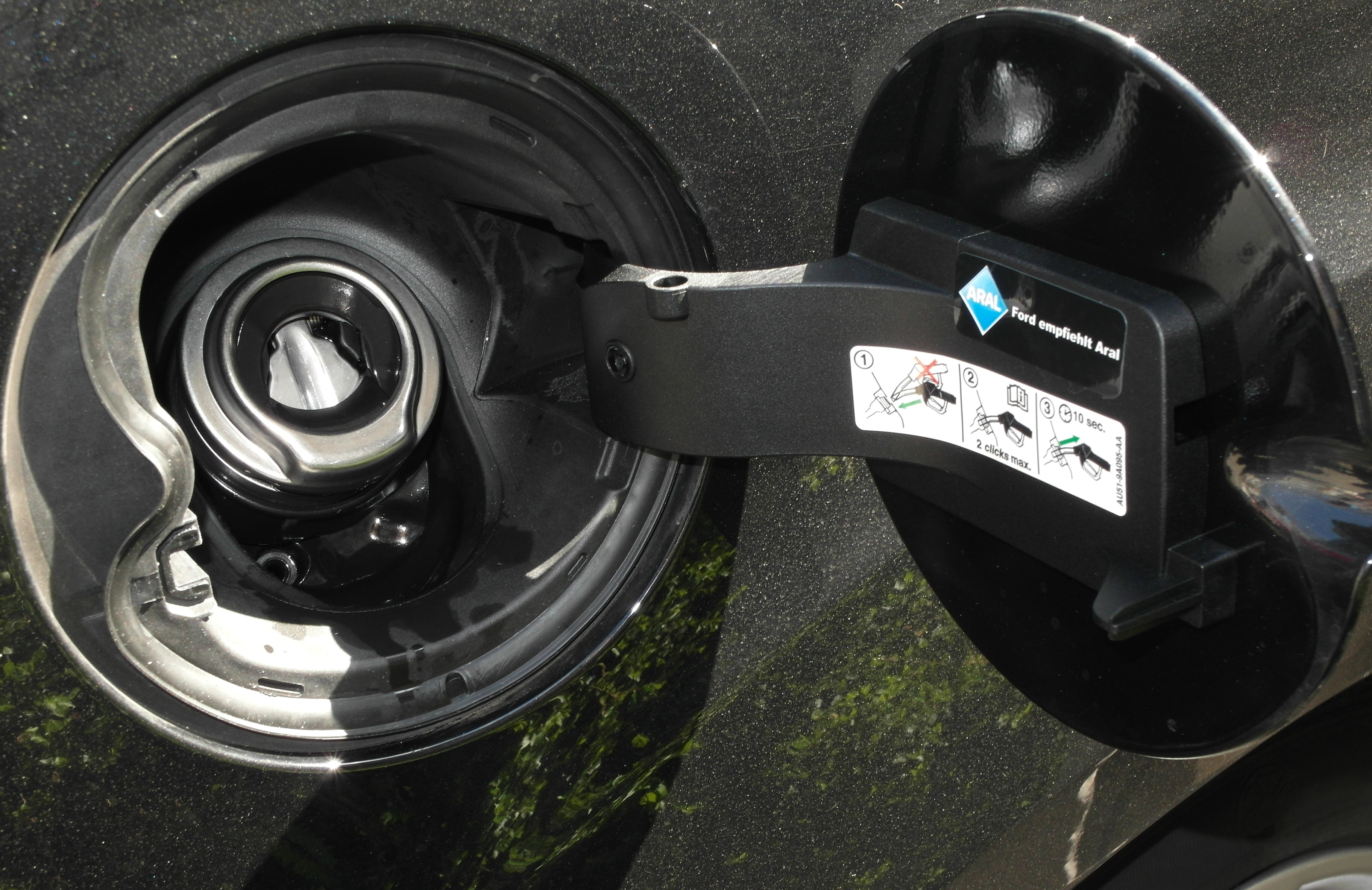 Modern fuel tank filler of a middle-sized class vehicle (Ford)